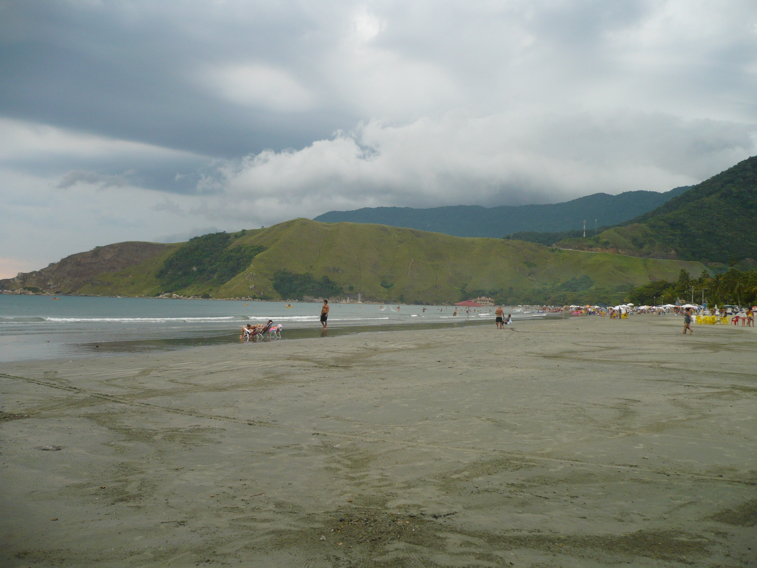 West view of Barequeçaba Beach in São Sebastião, São Paulo, Brazil.